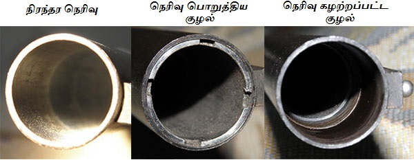 Permenant and replaceable gun chokes